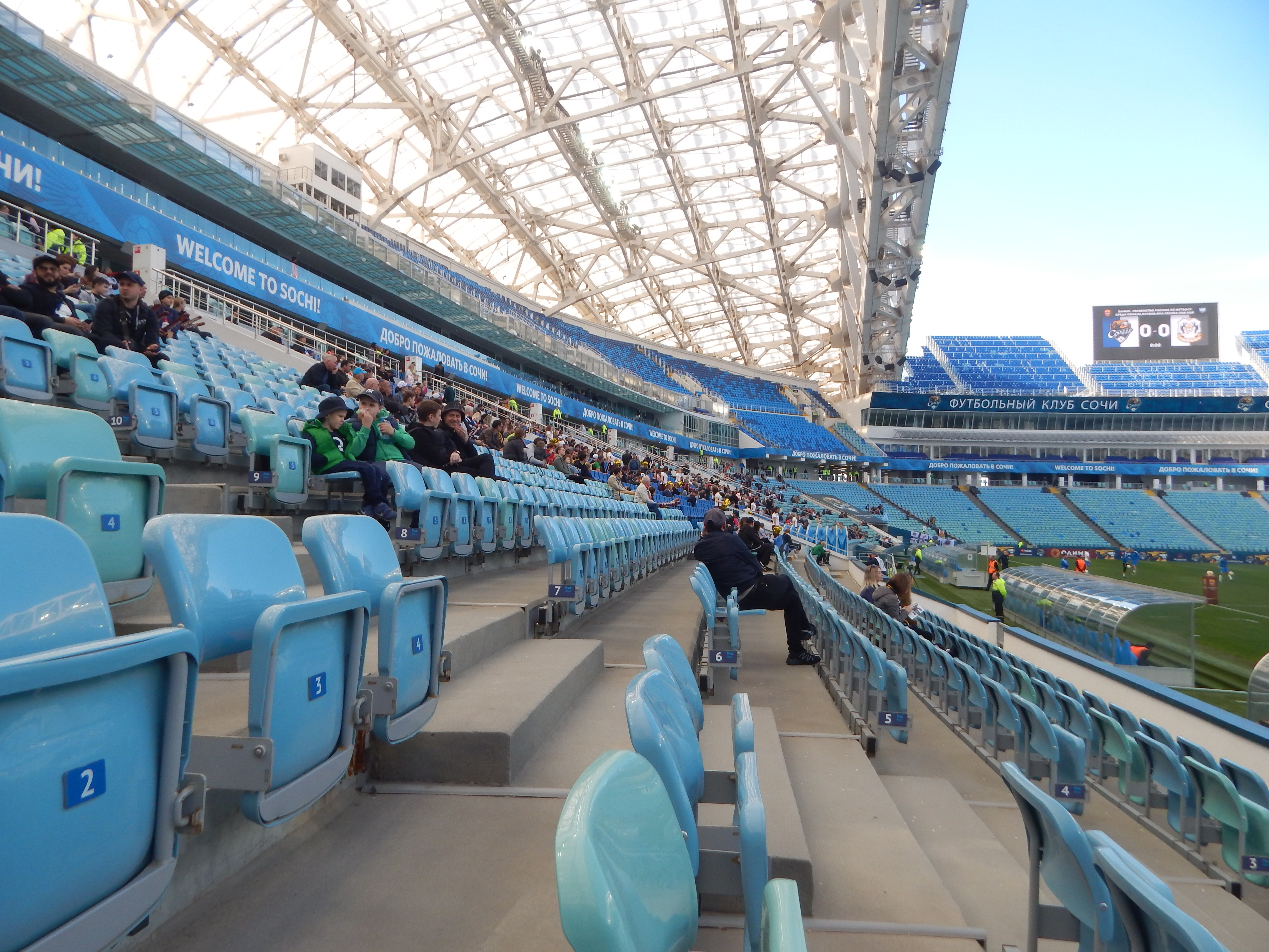 2018–19 Russian National Football League, match between FC Sochi and FC Tyumen. April 7, 2019, Fisht Olympic Stadium, Sochi, Russia